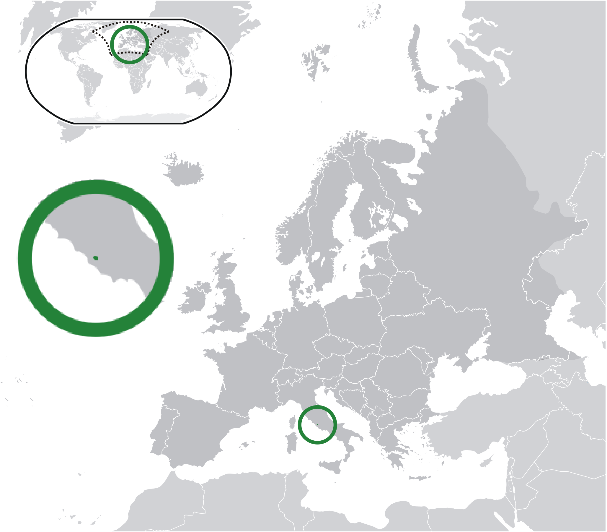 Vatican City (dark green) / Europe (dark grey); inspired by and consistent with general country locator maps by User:Vardion, et al